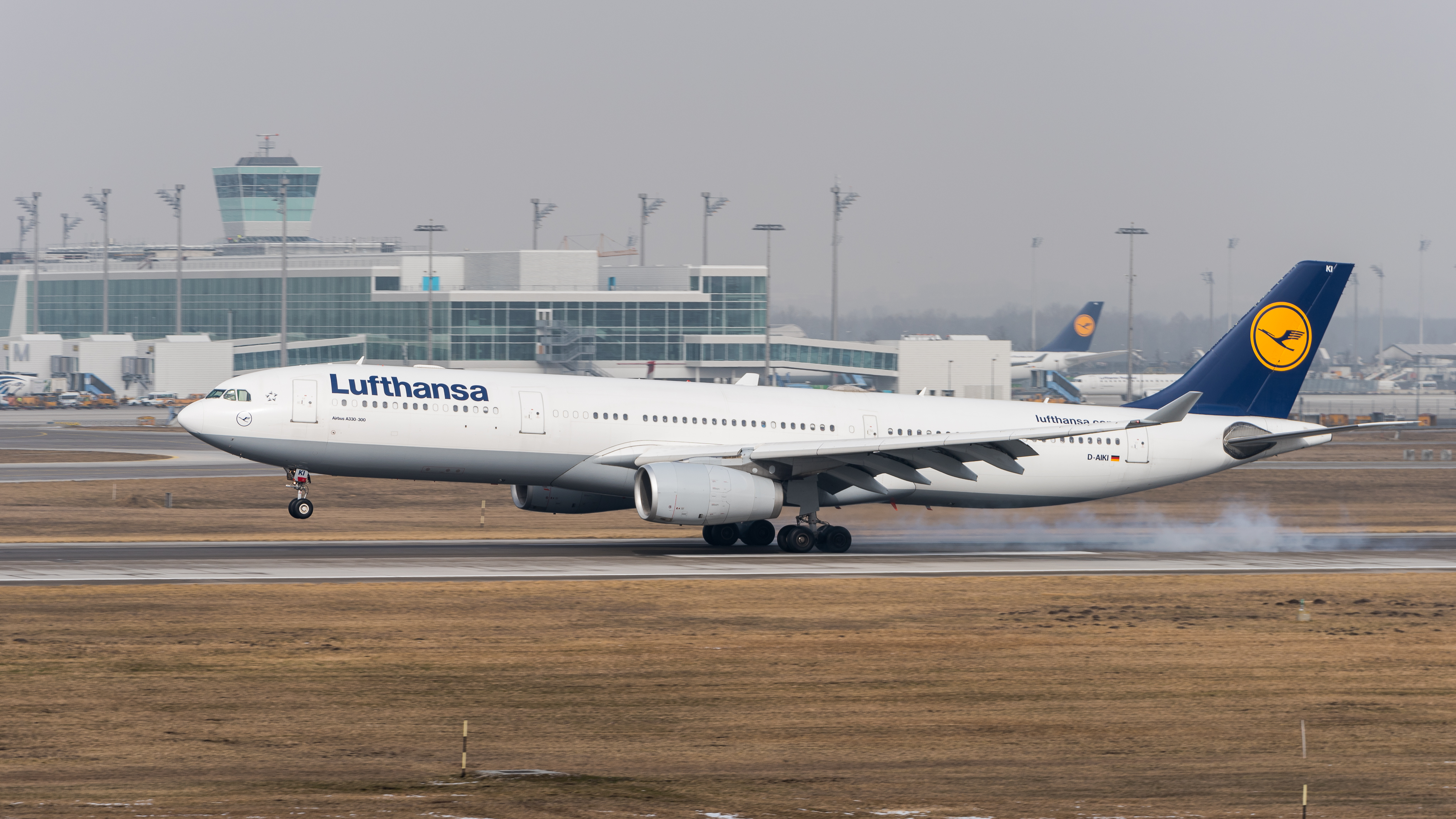 Lufthansa Airbus A330-343 (reg. D-AIKI) at Munich Airport (IATA: MUC; ICAO: EDDM).